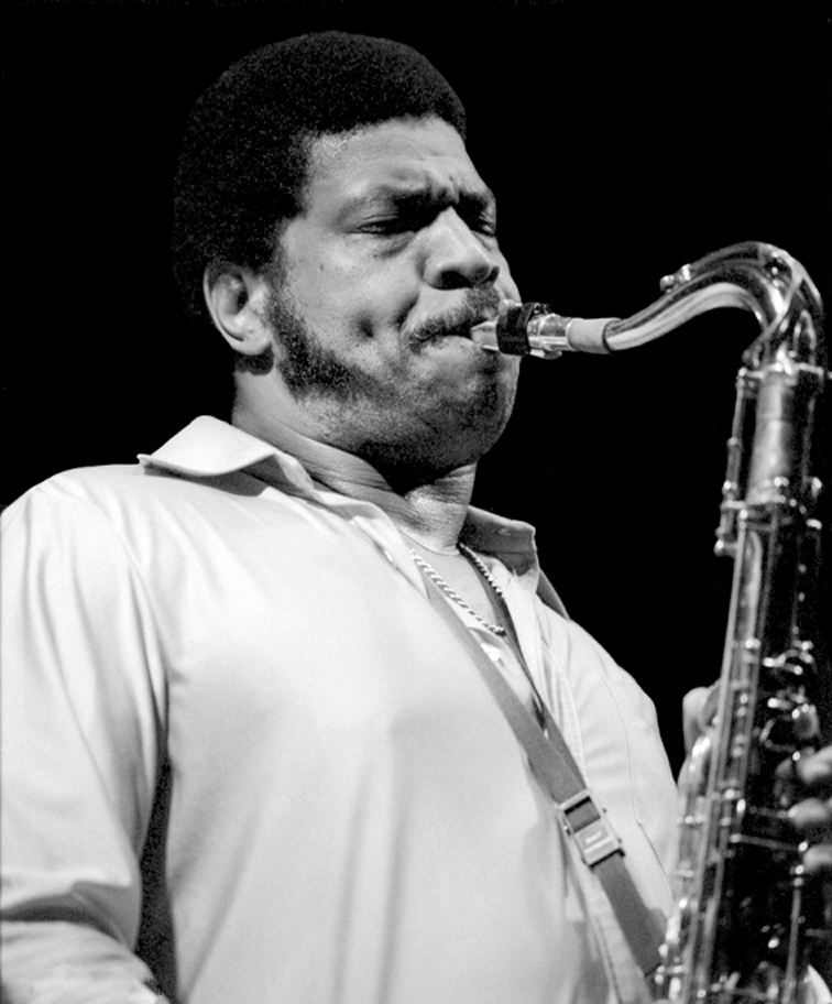 George Coleman at Keystone Korner, San Francisco CA 8/29/79. Photo by Brian McMillen /